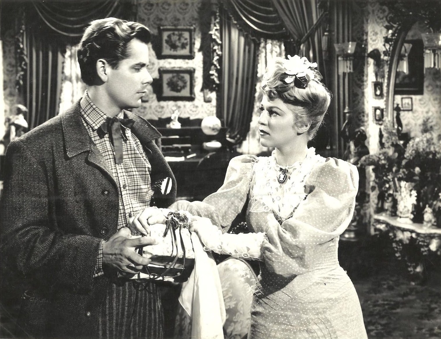 Glenn Ford and Claire Trevor in the film The Desperadoes (1943) - publicity still (cropped)